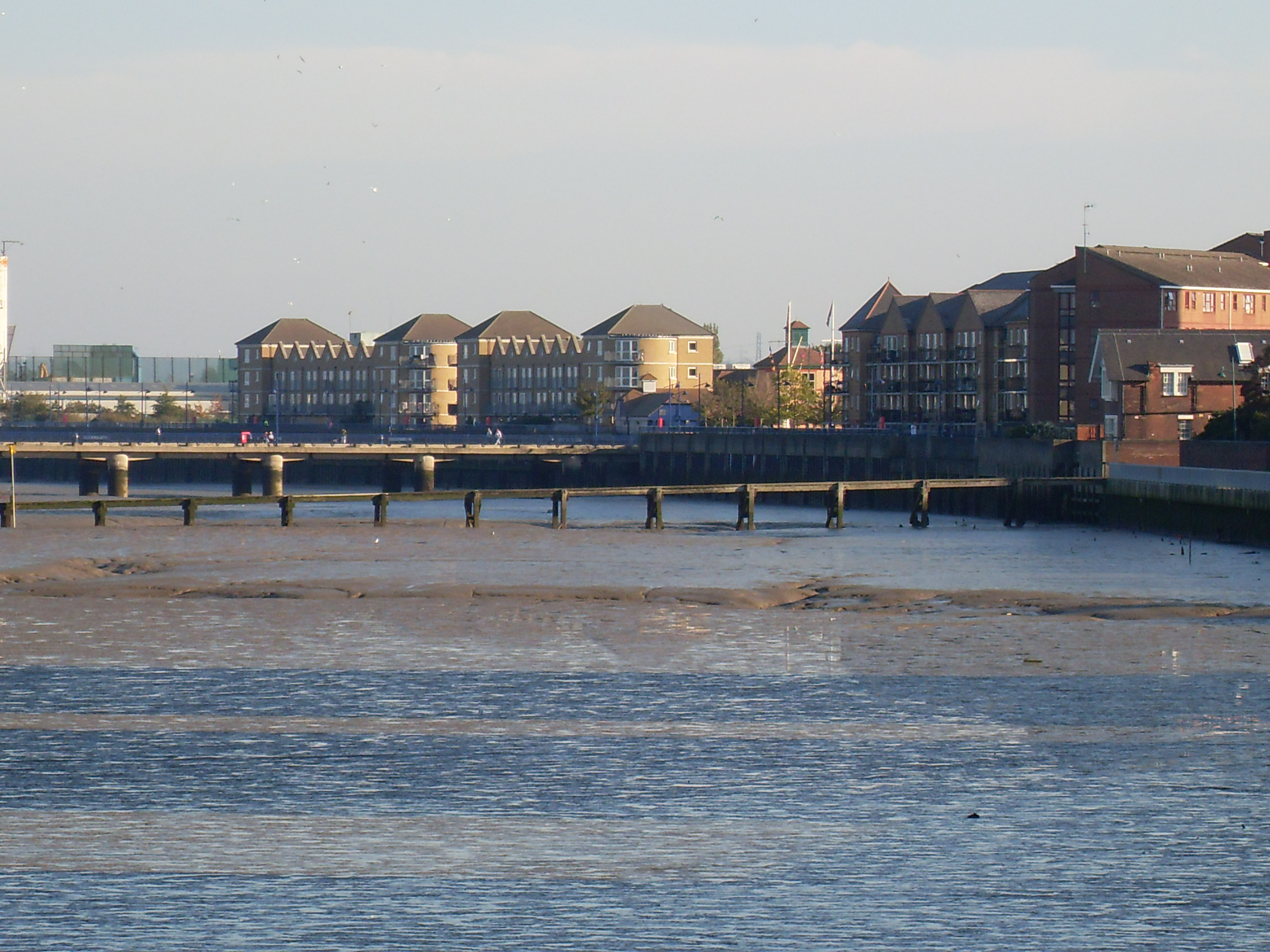 Photo take of the Erith waterfront